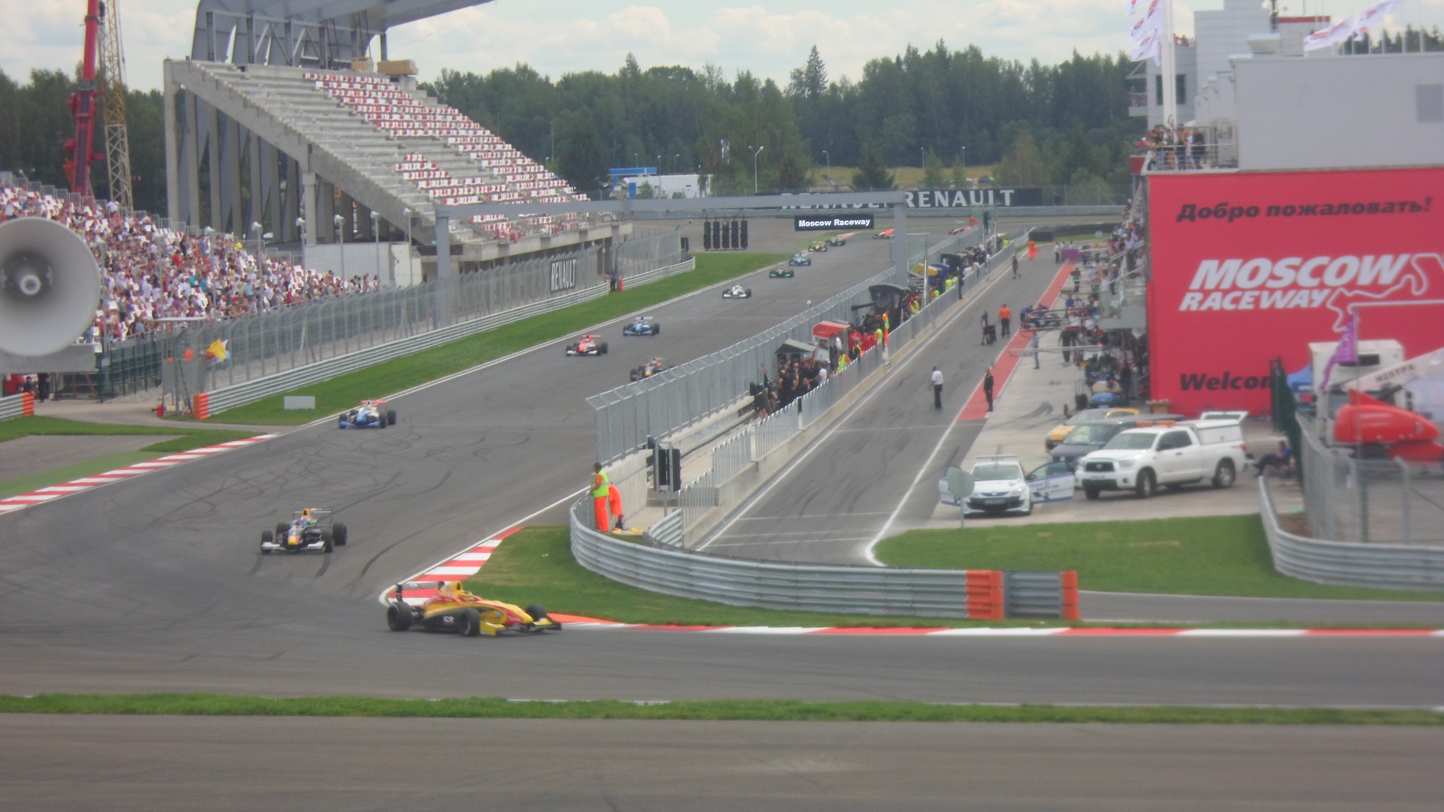 Eurocup Formula Renault 2.0 Moscow Raceway 2012